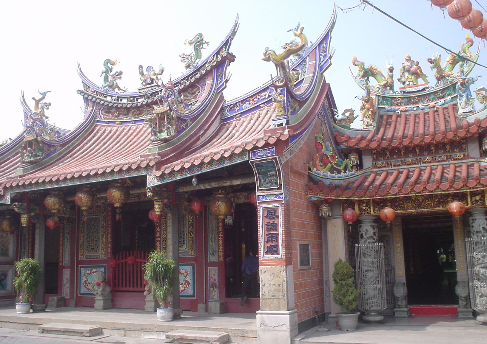 I took the photo on October 9, en:2006 in Taichung City, Taiwan. It is located in Nantun Village in Taichung City. It was built during the Qing Dynasty and is a Category 3 National Historic Site.